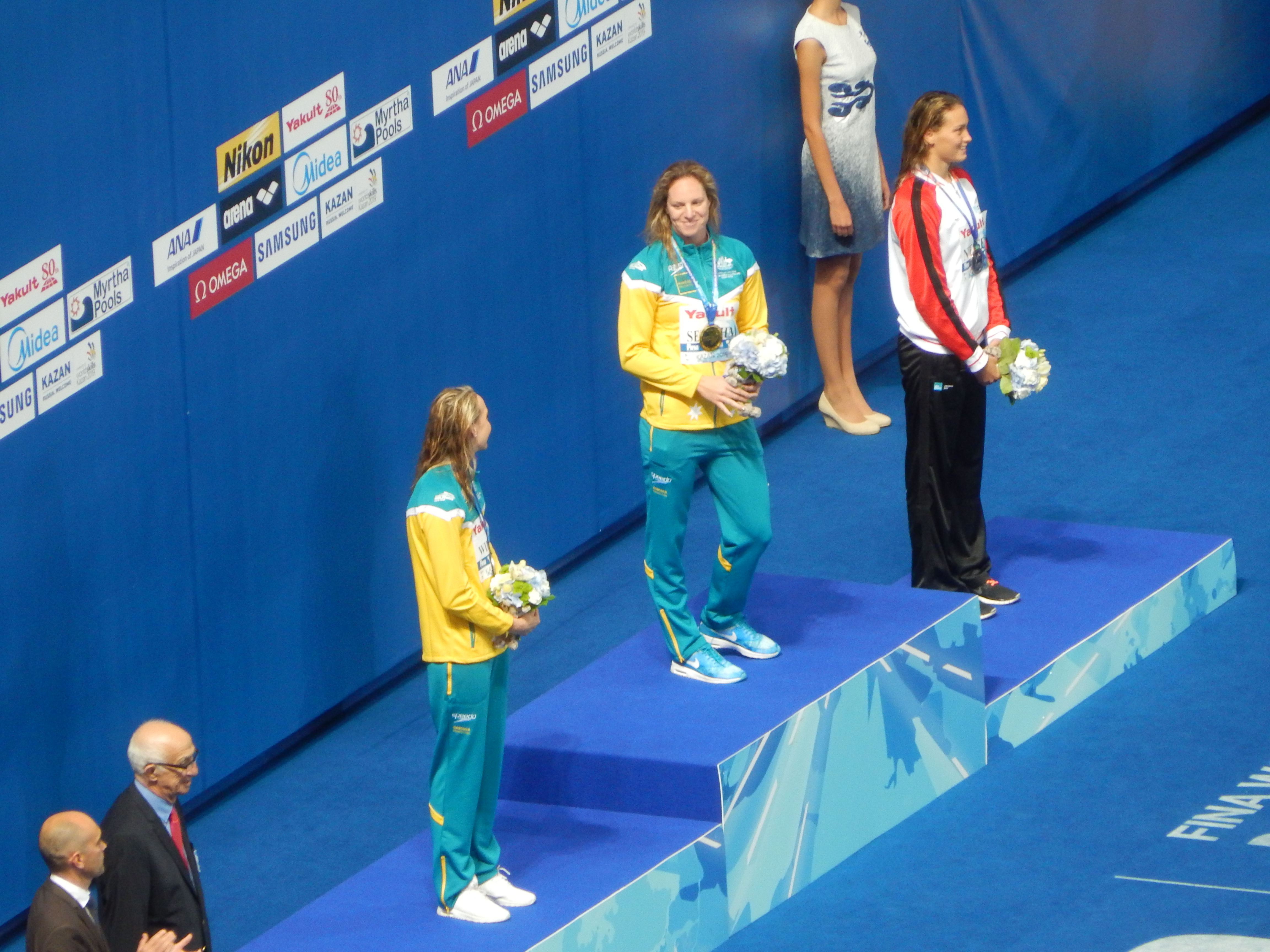 Medallists at the women's 100 metres backstroke in Kazan 2015